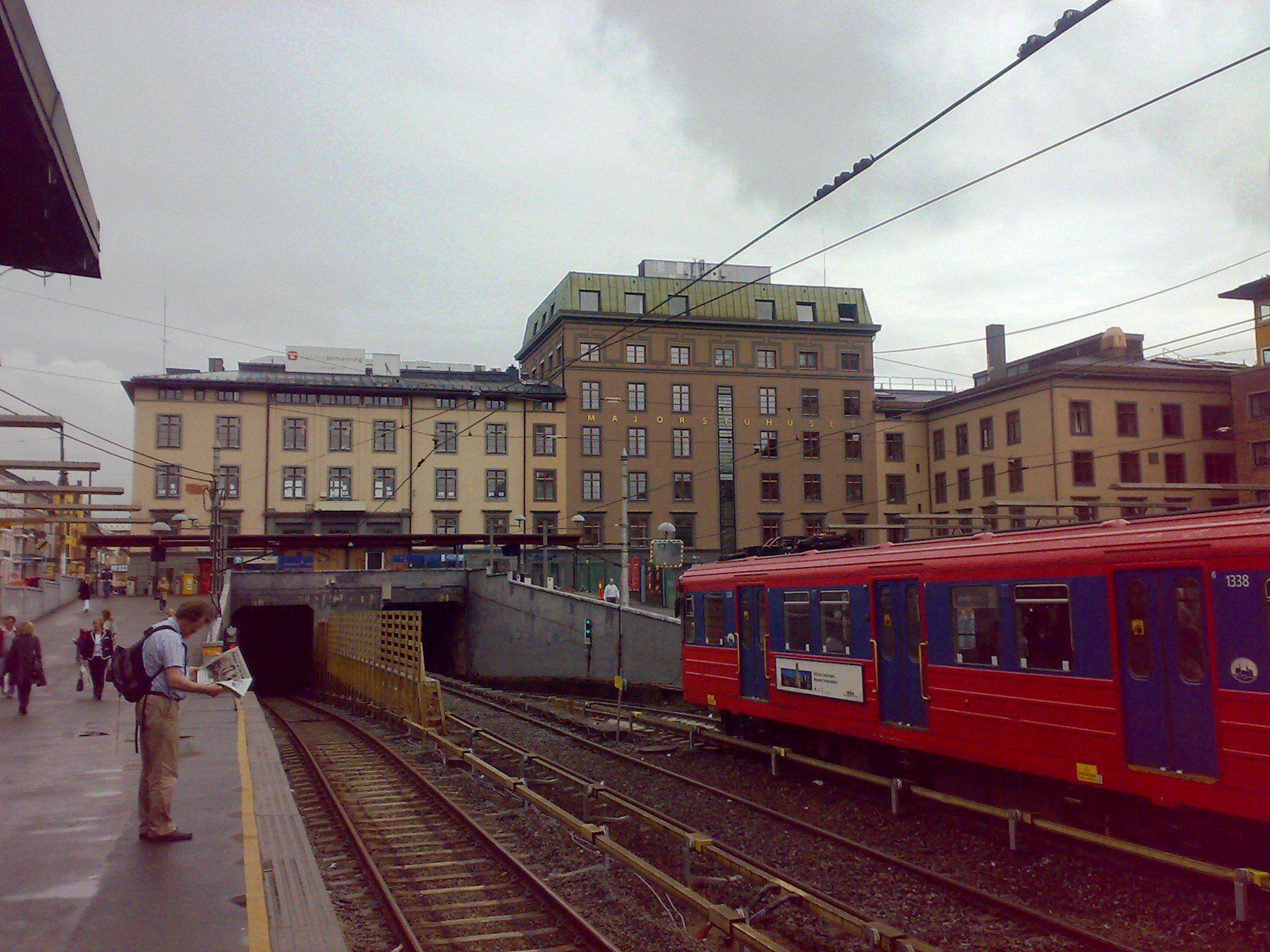 Majorstua subway station, Oslo, Norway